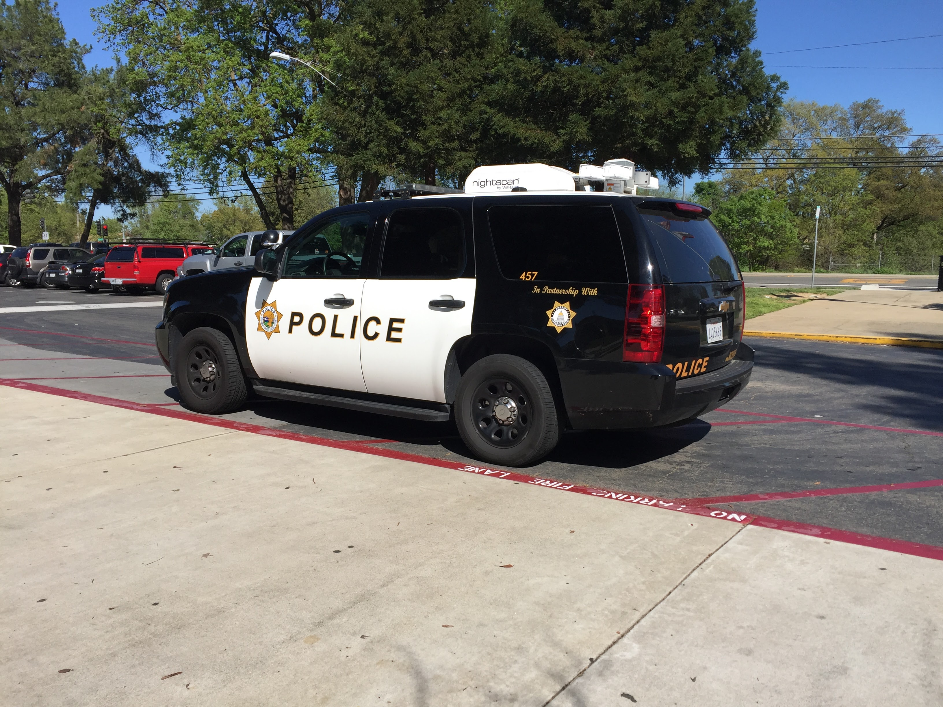 An Elk Grove Unified School District Police car. Note the "In Partnership with Sacramento County Sheriff" decal on the rear panel.